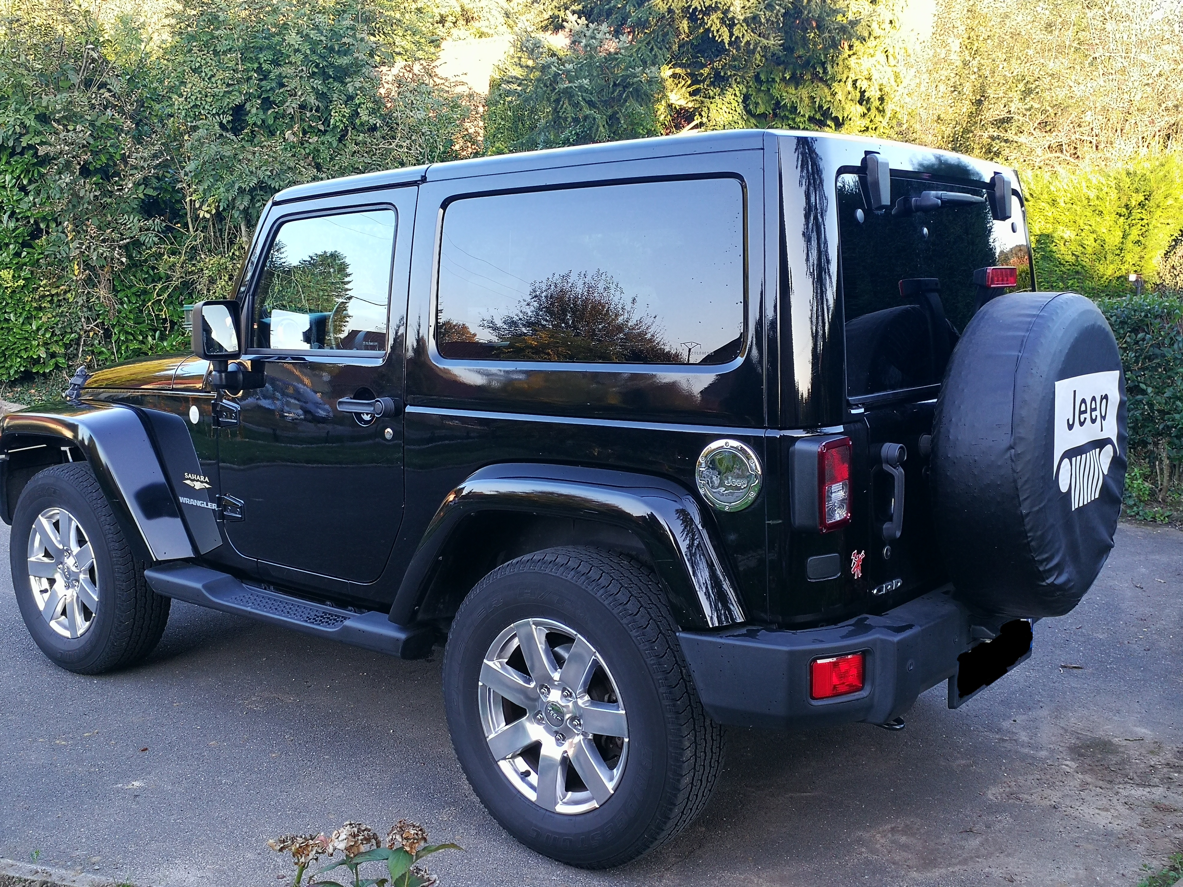 Rear view of the Jeep Wrangler Sahara.